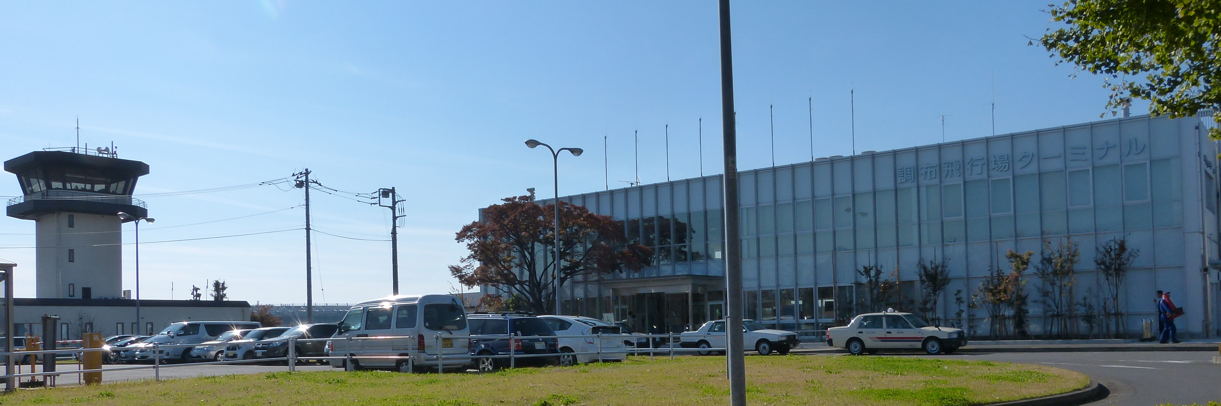 Chofu airfiled,Tokyo metropolis, Japan